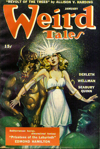 Cover of the pulp magazine Weird Tales (January 1945, vol. 38, no. 3) featuring Priestess of the Labyrinth by Edmond Hamilton. Cover art by Margaret Brundage.